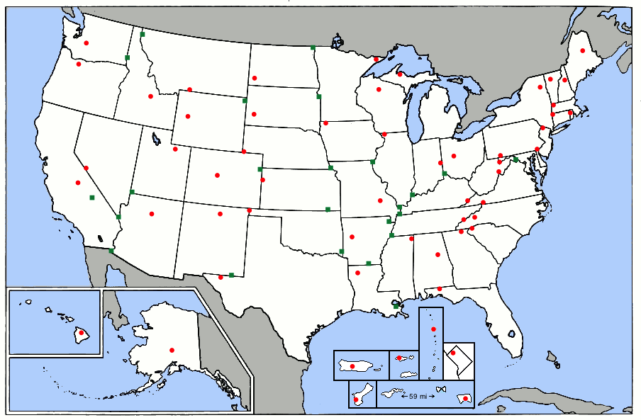 A map of the high points of the U.S. states and territories (red dots) and lowest points (green dots). The 5 major U.S. territories and the District of Columbia are in insets. The U.S. Minor Outlying Islands are not on the map. If the lowest point of a state or territory is an ocean, one of the Great Lakes, or Lake Champlain, there is no green dot. Map is a modified version of the map at this URL